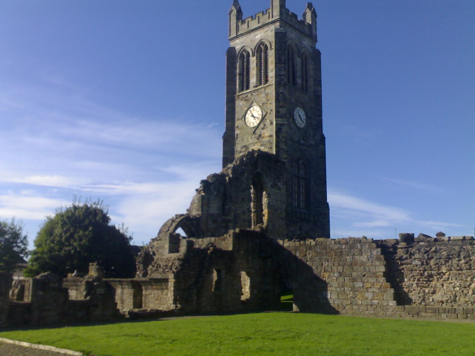 Kilwinning Abbey in Scotland, Taken with Nokia 6270 mobile phone